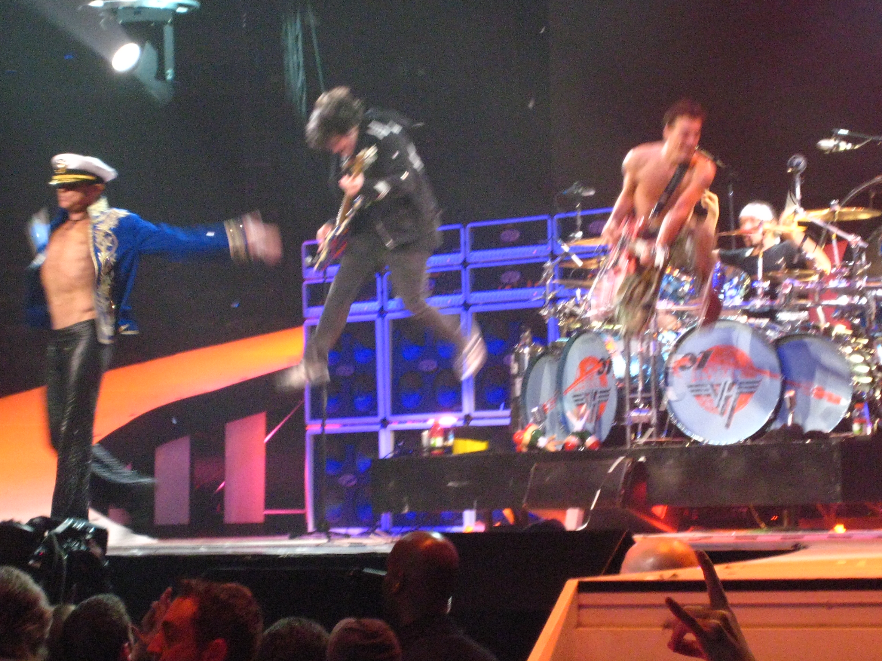 Van Halen performs their song "Jump". Taken at The Van Halen Tour featuring David Lee Roth (lead vocals), Eddie Van Halen (guitars), Wolfgang Van Halen (bass) and Alex Van Halen (drums). The concert was held at Bell Center, Montreal on 10th November, 2007.